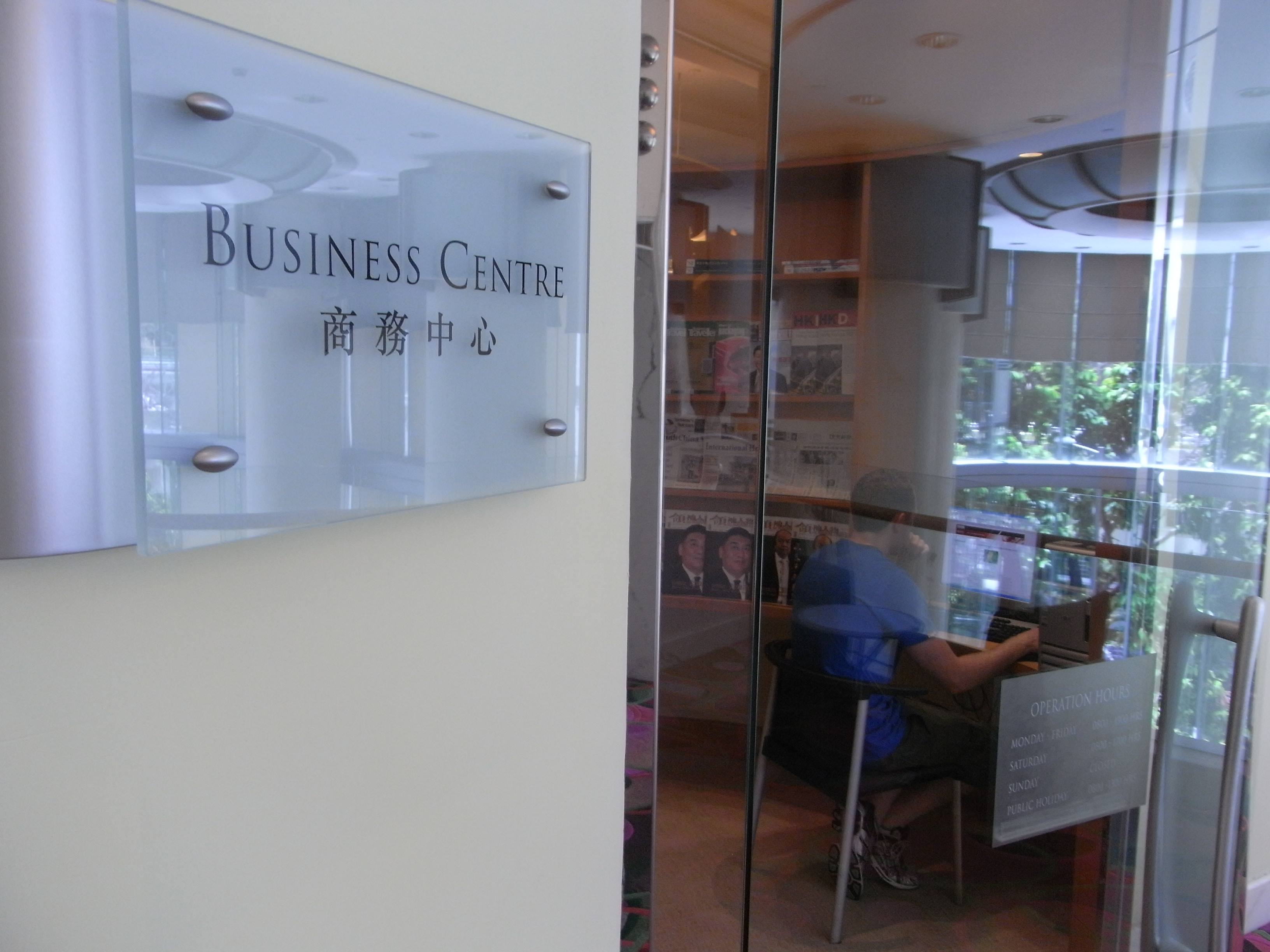 香港銅鑼灣維景酒店 酒店商務中心